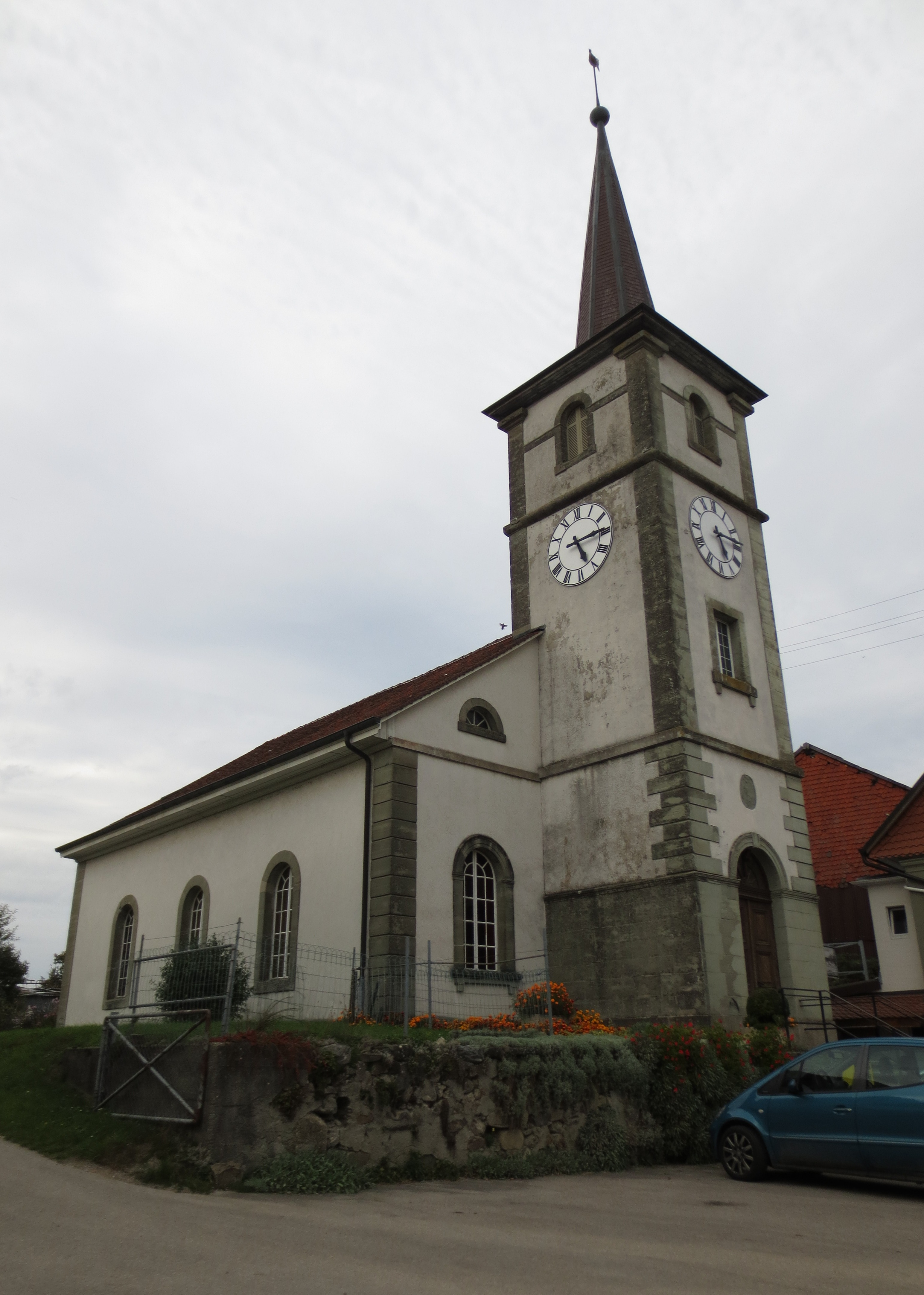 Chesalles-sur-Moudon Church, Canton of Vaud, Switzerland